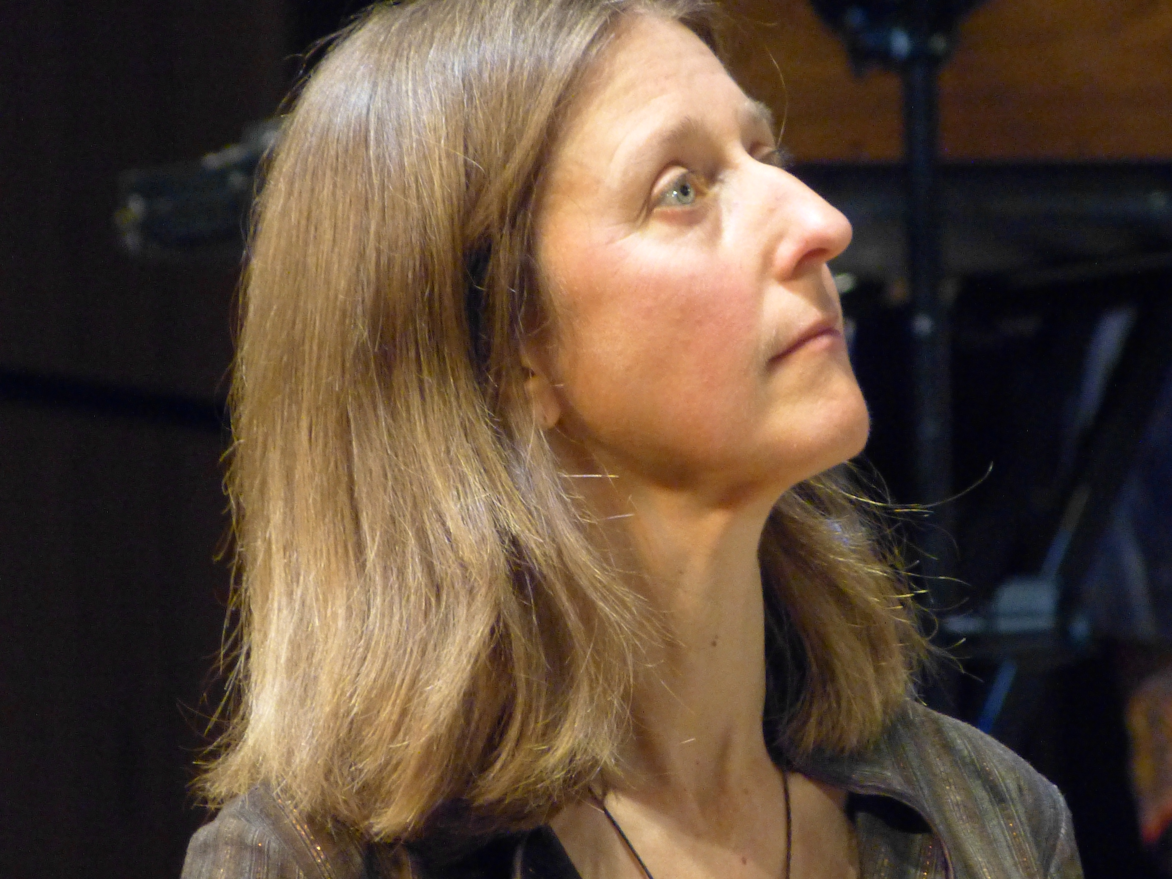 Felicity Provan in concert with the David Kweksilber Big Band at WDR, Cologne, Germany, May 6th, 2017 in the course of the Acht Brücken festival